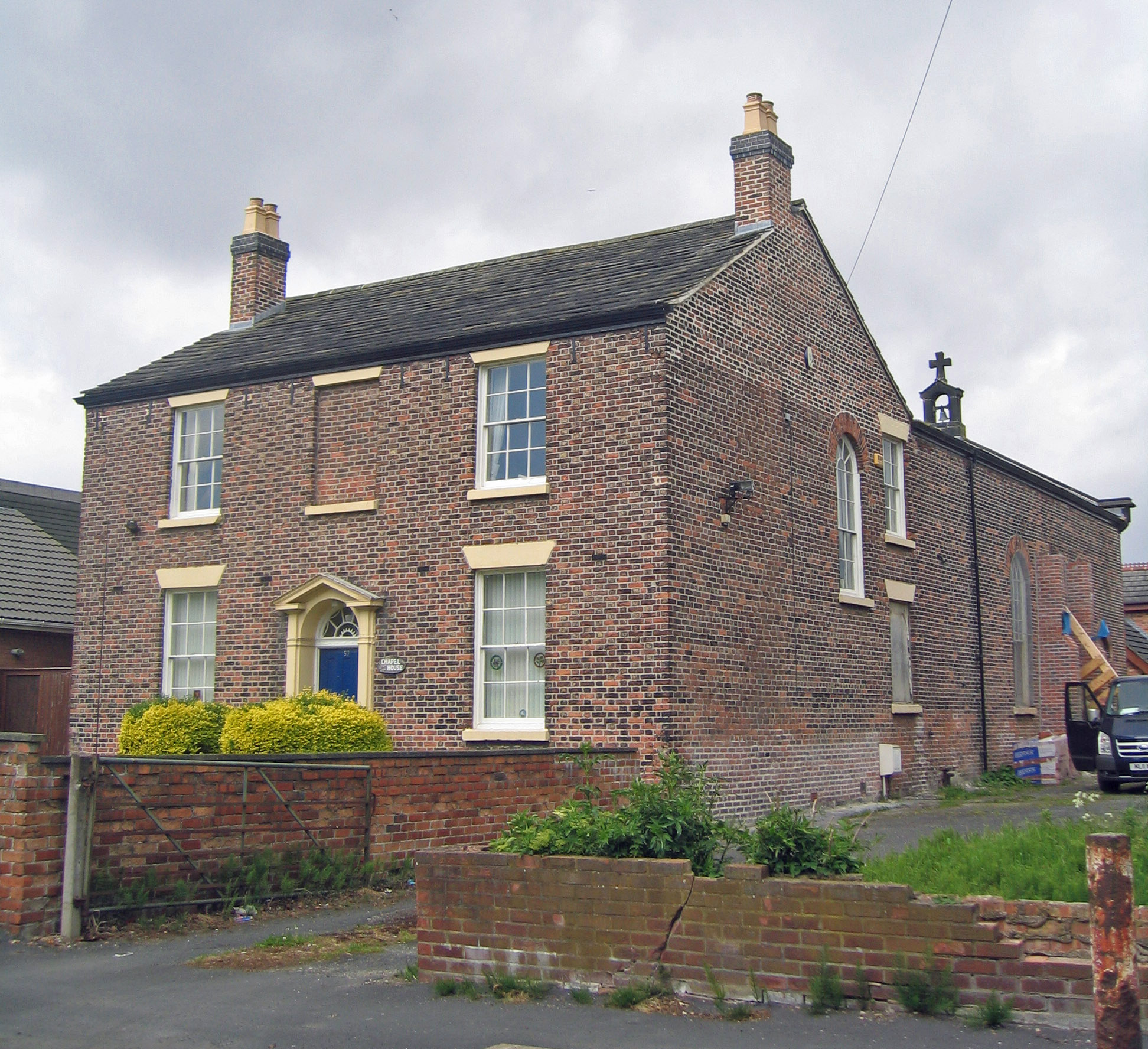 Photograph showing Chapel House in the foreground, with the redundant chapel extending beyond